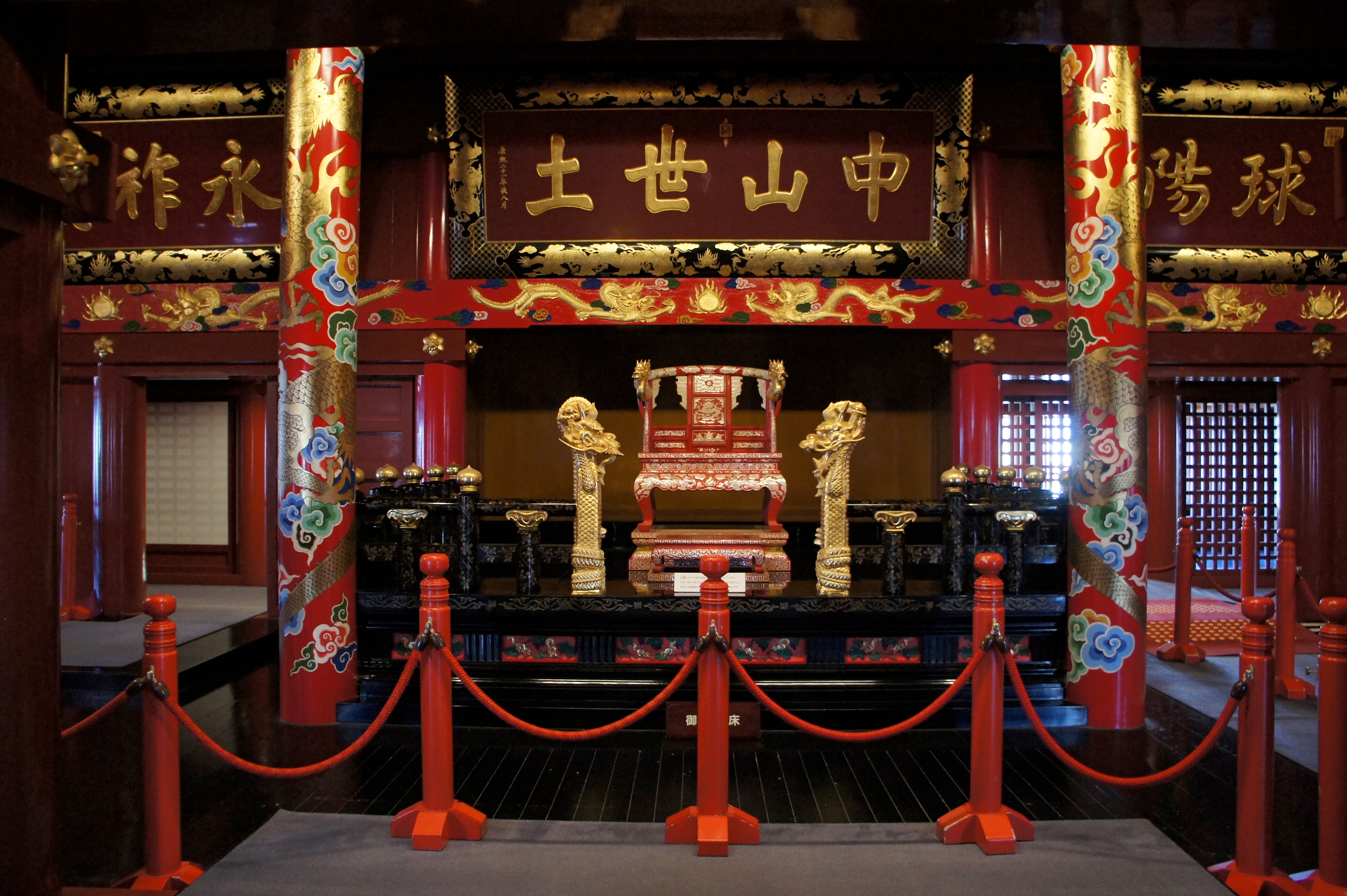 at Shuri Castle in Naha, Okinawa prefecture, Japan